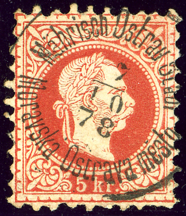 Austrian KK 5 kreuzer stamp, bilingual cancelled Mährisch Ostrau Stadt - Moravska Ostrava mesto in 1878 (Moravia)